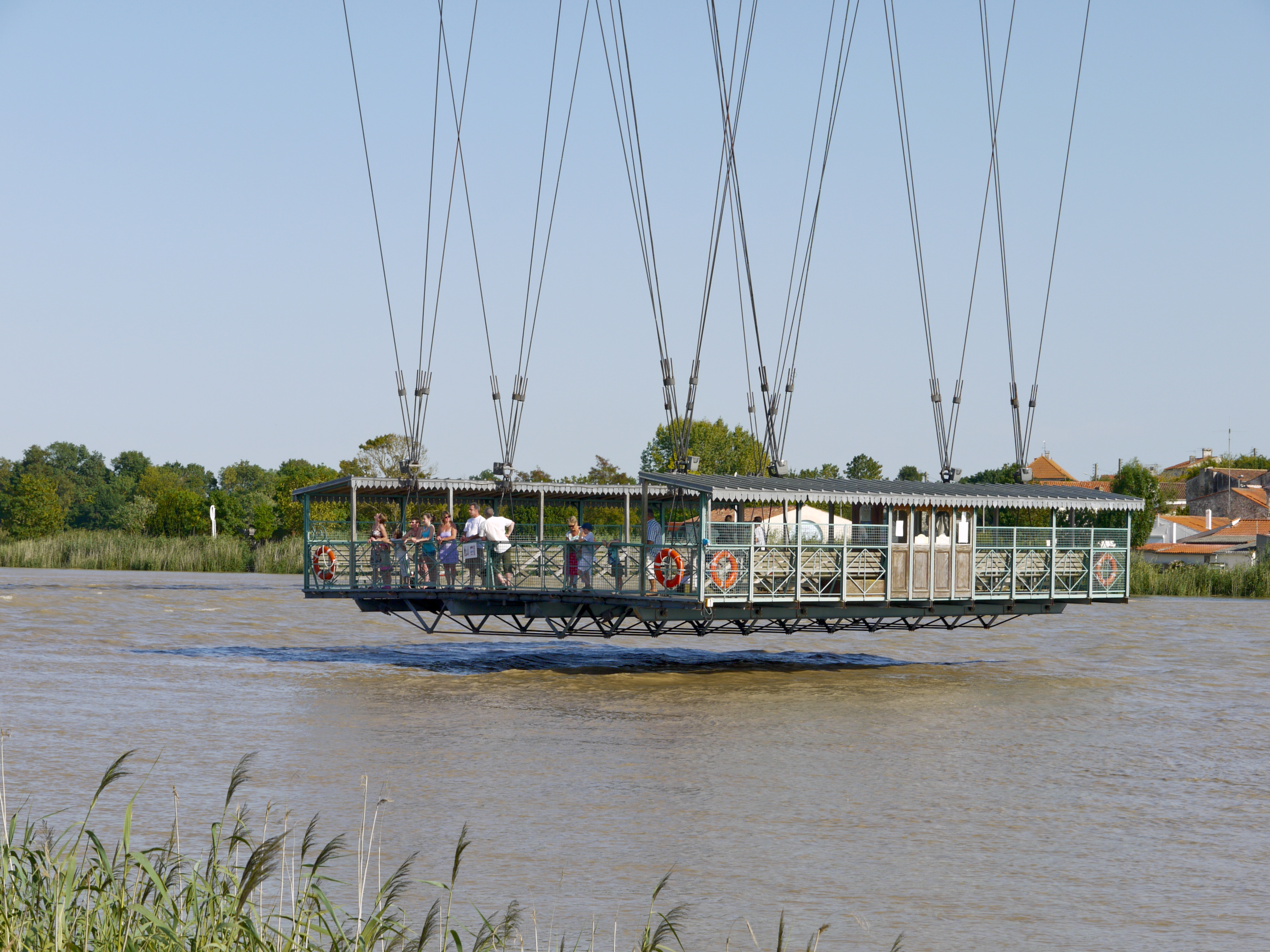 Rochefort-Martrou Transporter Bridge over river Charente. France.